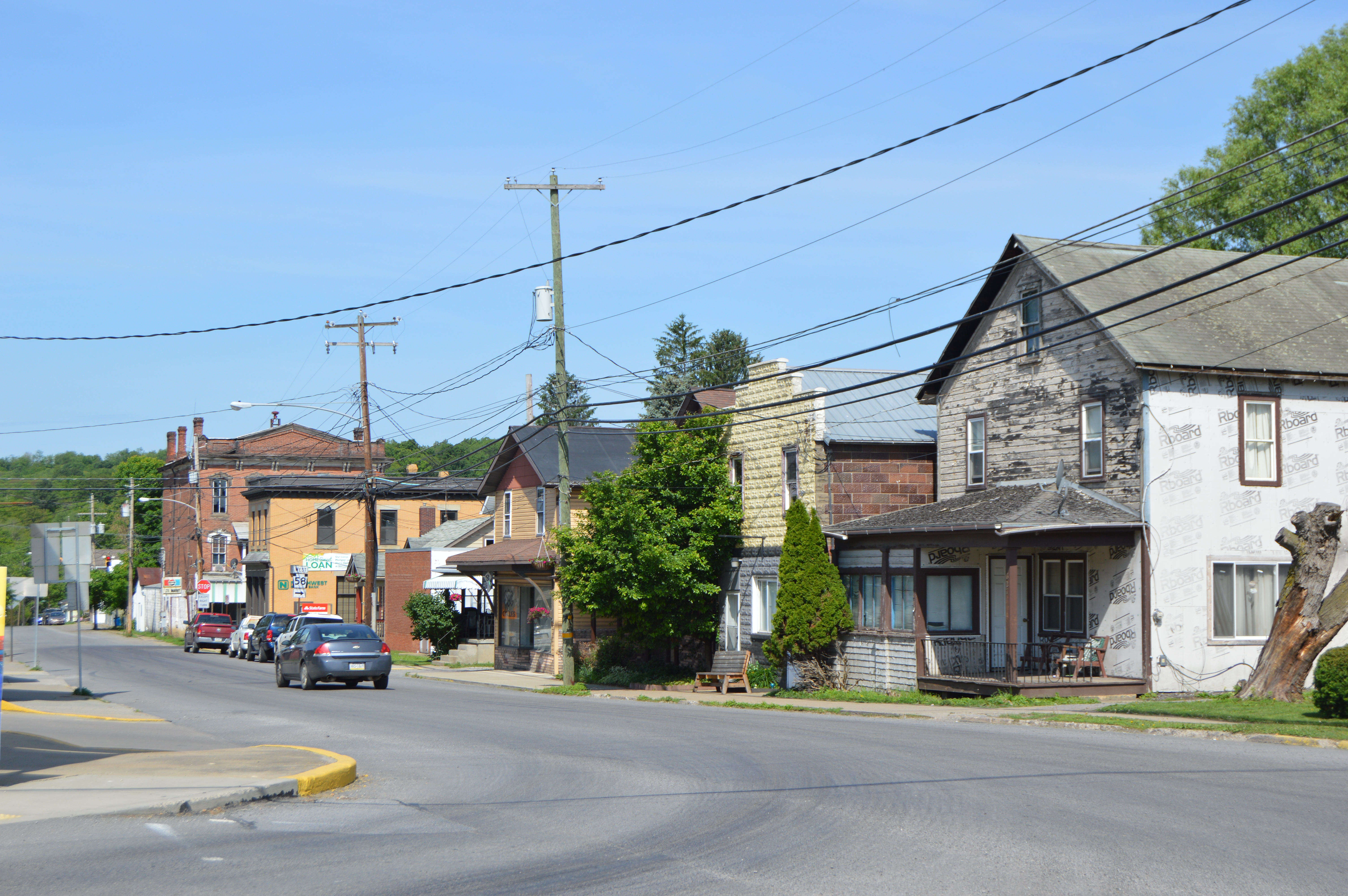 Buildings on the northern side of Bald Eagle Street (Pennsylvania Route 58), seen looking west from the Colerain Street intersection, in Sligo, Pennsylvania, United States.